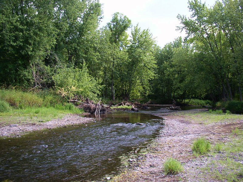 Sunrise River near its mouth, Wild River State Park, Minnesota, USA.